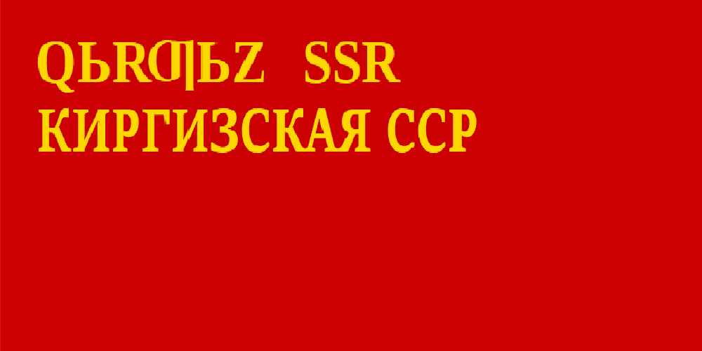 Flag of the Kyrgyz SSR from March 1937 till 1940.